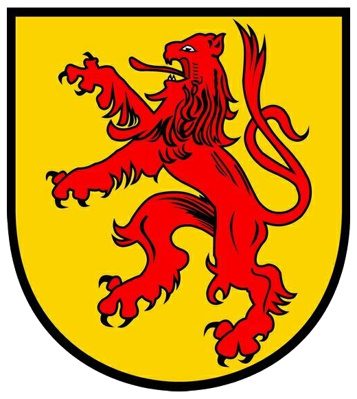 Coat of arms of Bräunlingen